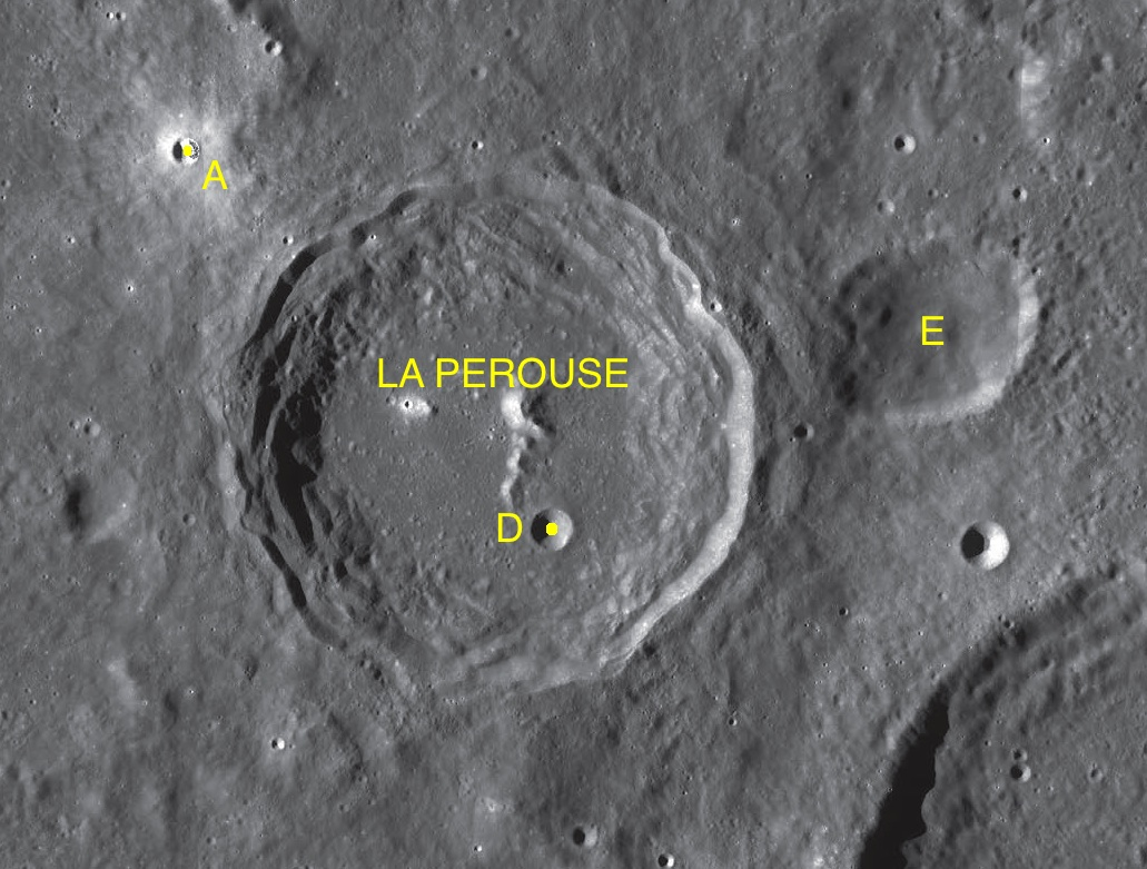 Part of the chart LAC-81 used for the presentation